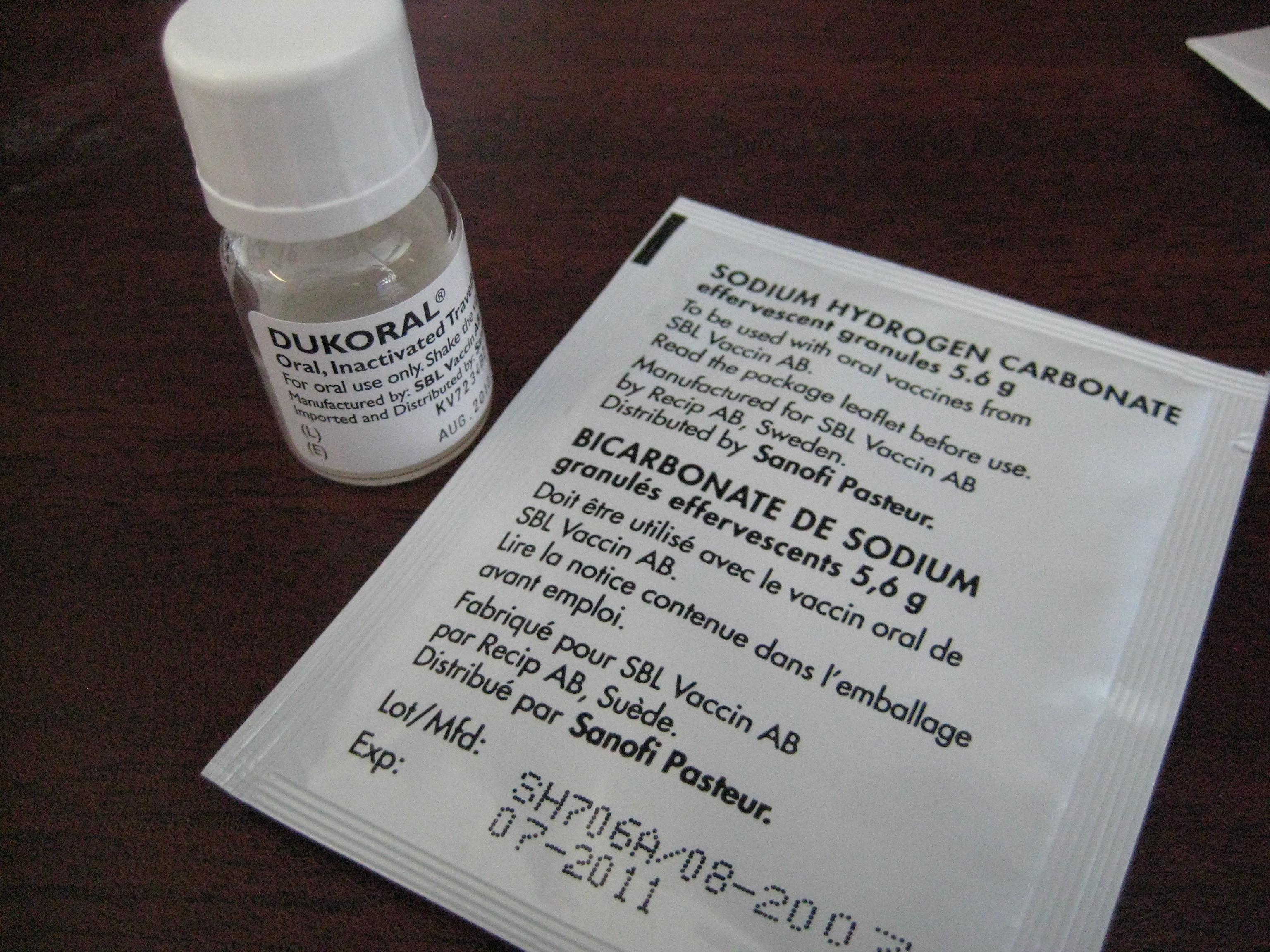 Glass vial containing a single dose of Dukoral, oral cholera vaccine and packet of bicarbonate buffer. Contents are combined when ingesting the vaccine. Note the presence of batch identifying numbers and expiration dates on both items.